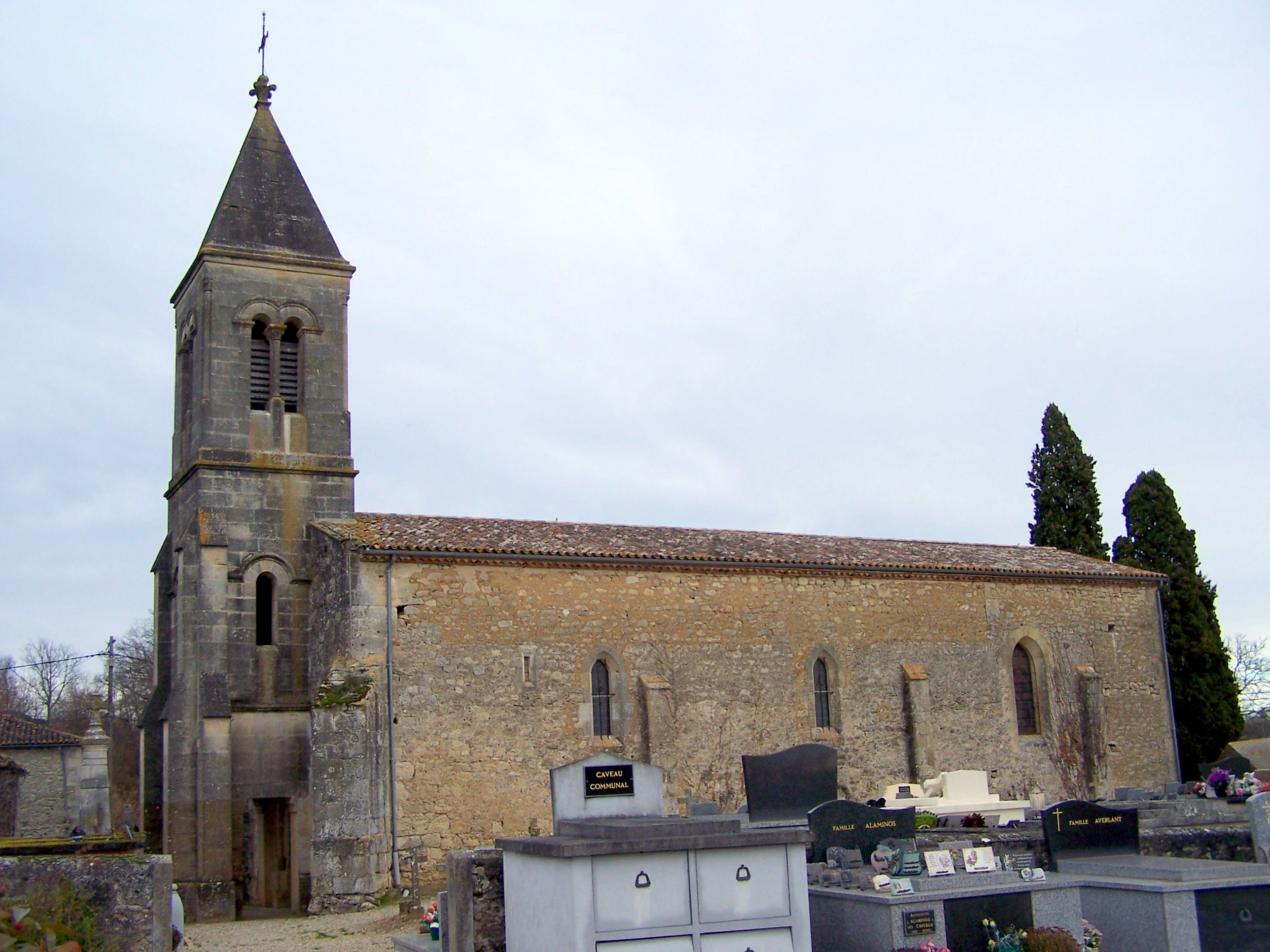 Church of Noaillac (Gironde, France)